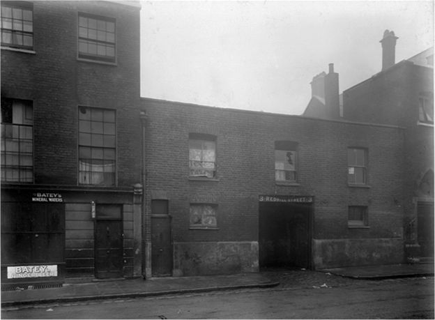 Victorian photograph of working class housing in Marylebone, circa 1880. Scanned by uploader from original archive photograph. Can you supply a reference for which archive this photograph came from and which file there? Thanks. It was at the time in the archive of the Crown Estate, of which I was the librarian. I have retired and do not know whether it is now there or at the National Archive under the Records Act 08:20, 20 March 2018 (UTC)